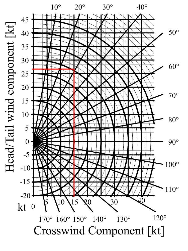 Crosswind Diagramm